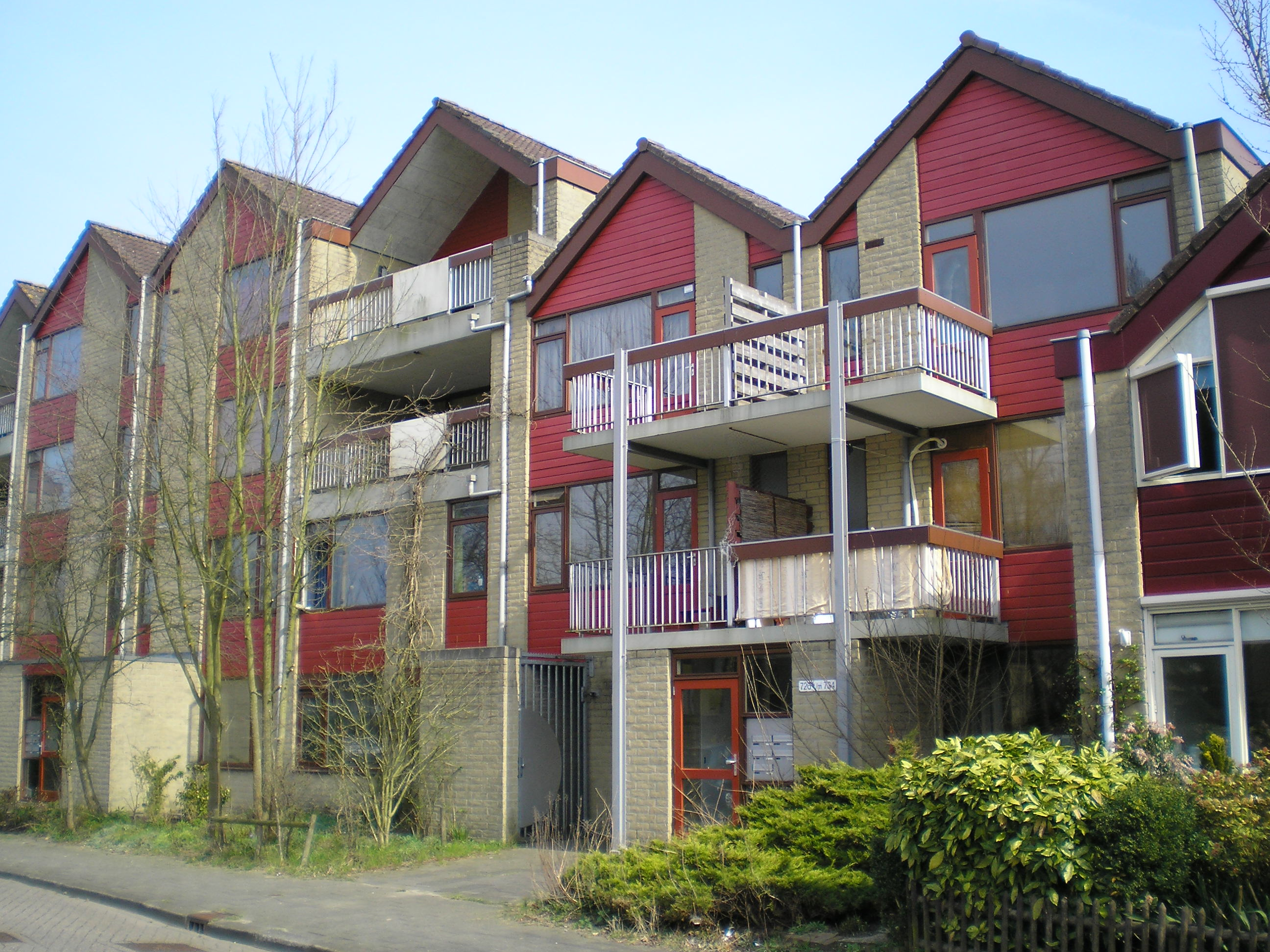 Furkabaan in Utrecht in the Netherlands